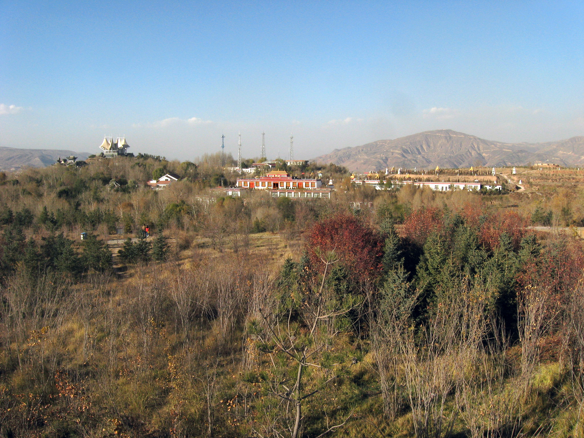 overview of Lhori park